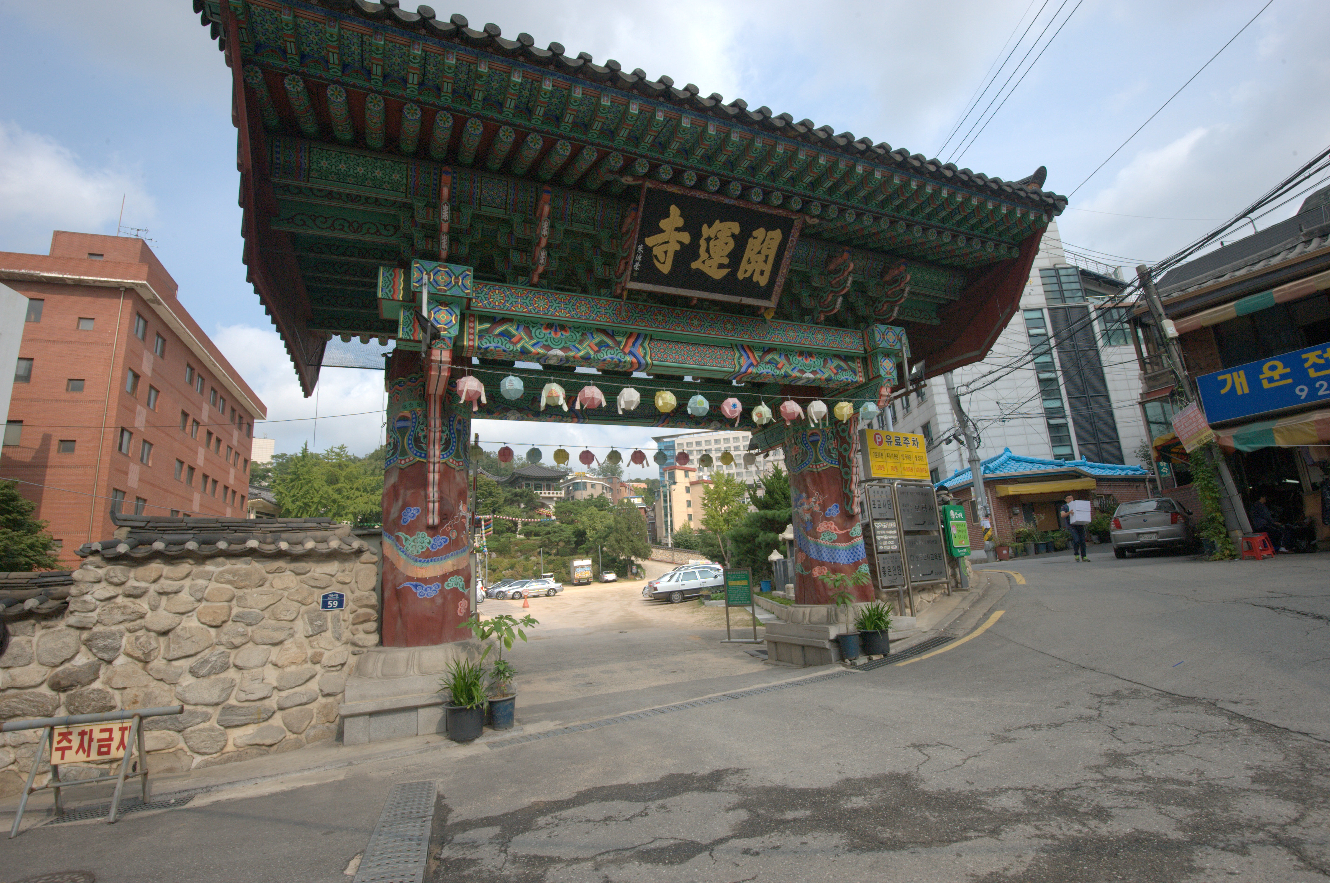 Main gate of Gaeunsa, a Buddhist temple of Jogye Order located in Anam-dong, Sungbuk-gu, Seoul, South Korea.